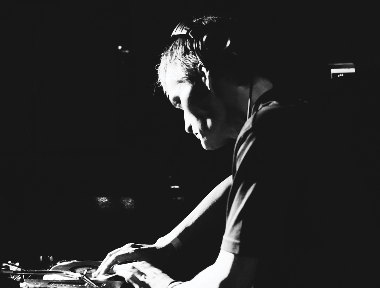 Source Direct performing live during a DJ set